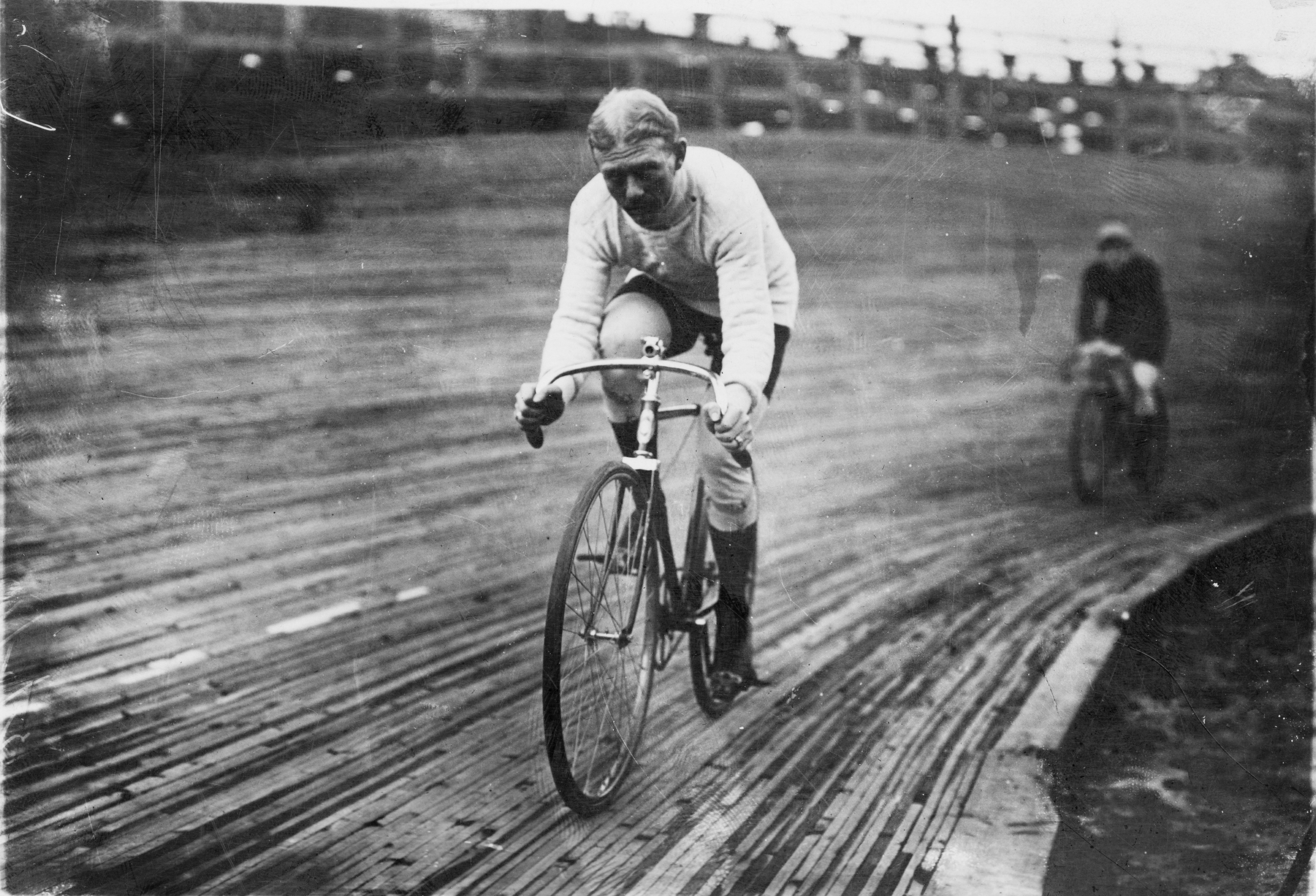 Robert 'Bob' Walthour sr.